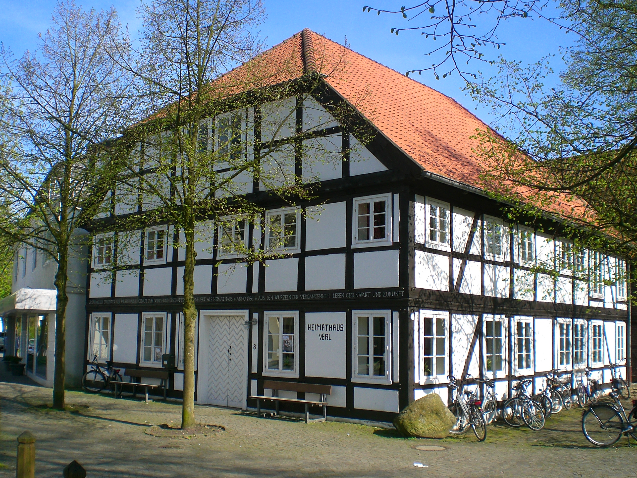 View to the entrance of the Heimathaus Verl.